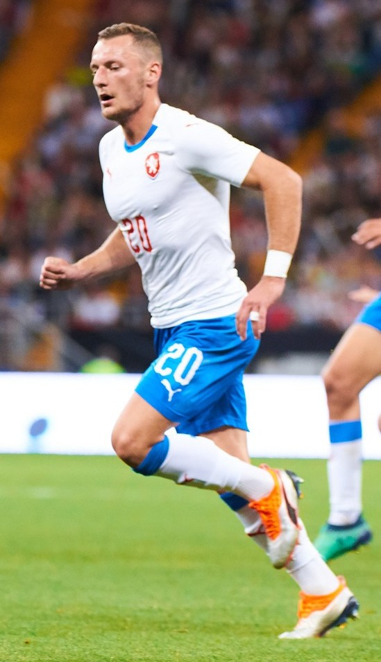 Russia vs. Czech Republic, 10 September 2018